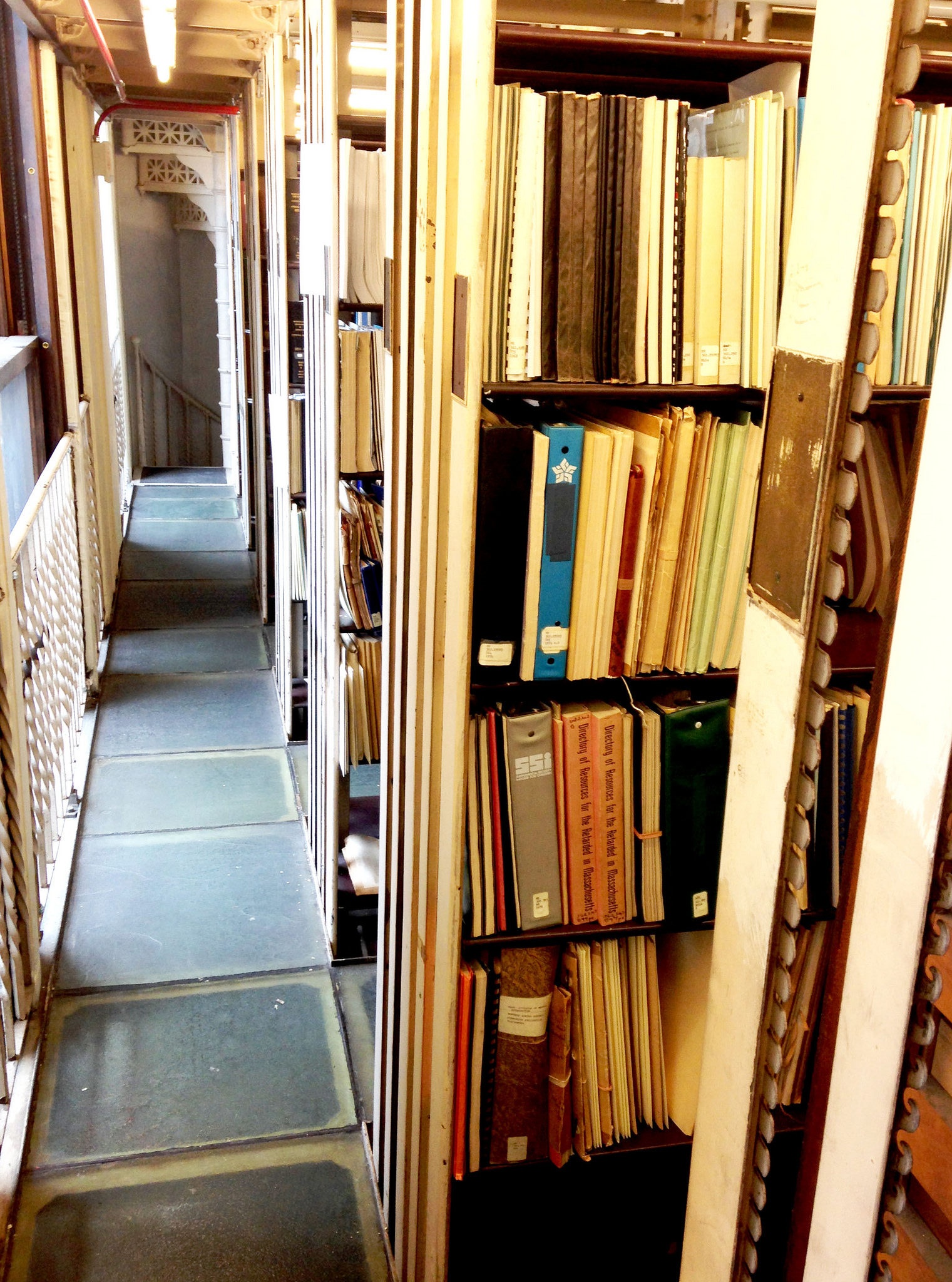 Stacks of the State Library of Massachusetts, 2016